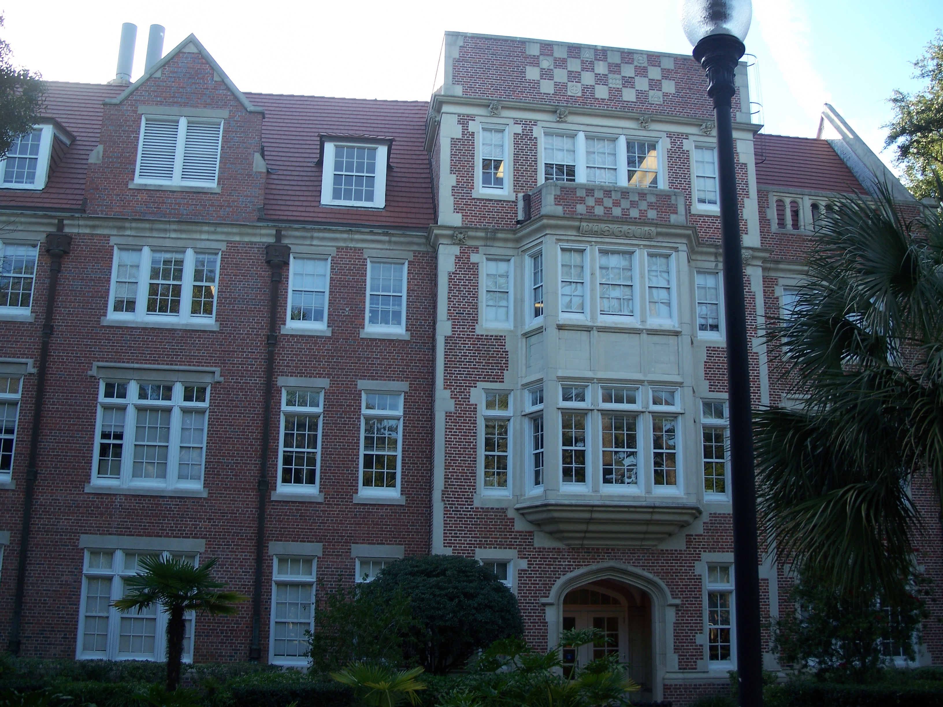 Leigh Hall, part of the University of Florida Campus Historic District